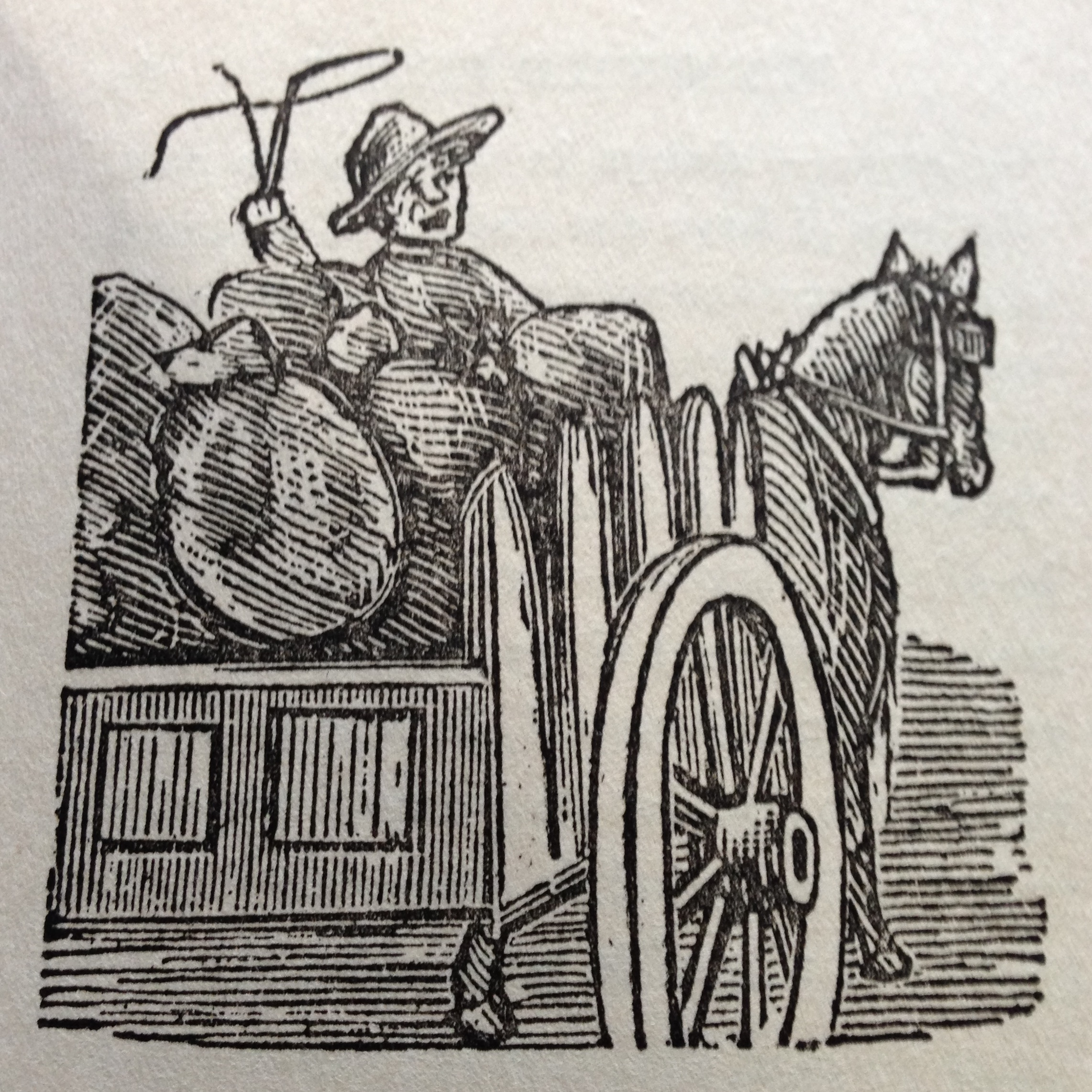 A cartoon drawn by Lafcadio Hearn and published in the New Orleans Daily Item, 1880.